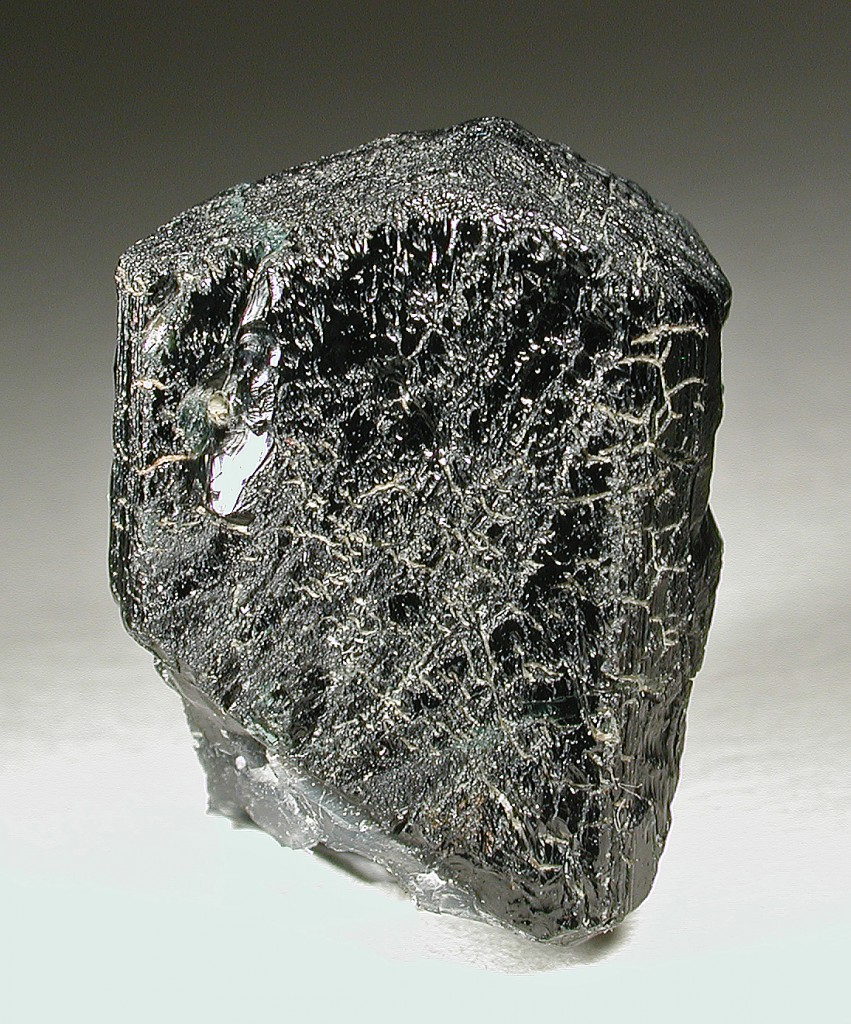 Serendibite (Dimensions: 16 mm x 13 mm x 8 mm) Locality: Mogok, Pyin Oo Lwin District, Mandalay Division, Burma (Myanmar) (Locality at ) Original description: A relatively sharp, vitreous black crystal of serendibite, labeled as from Le Oo, in Mogok Township. Measures 16 x 13 x 8 mm. Child photo shows opposite side. Ex-Ron Pellar Coll. via Dan Weinrich. K. Nash specimen and photo.